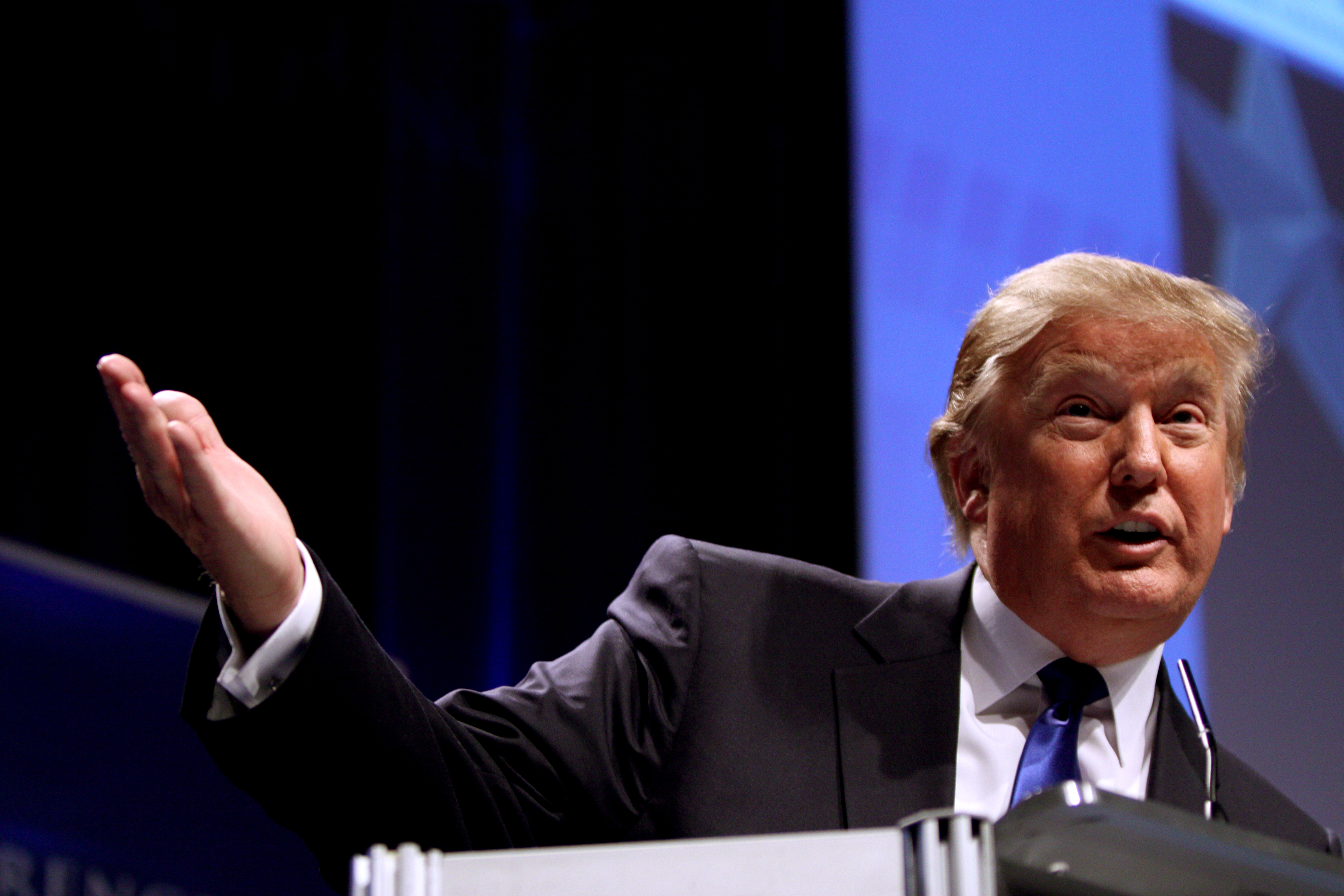 Donald Trump speaking at CPAC 2011 in Washington, D.C.